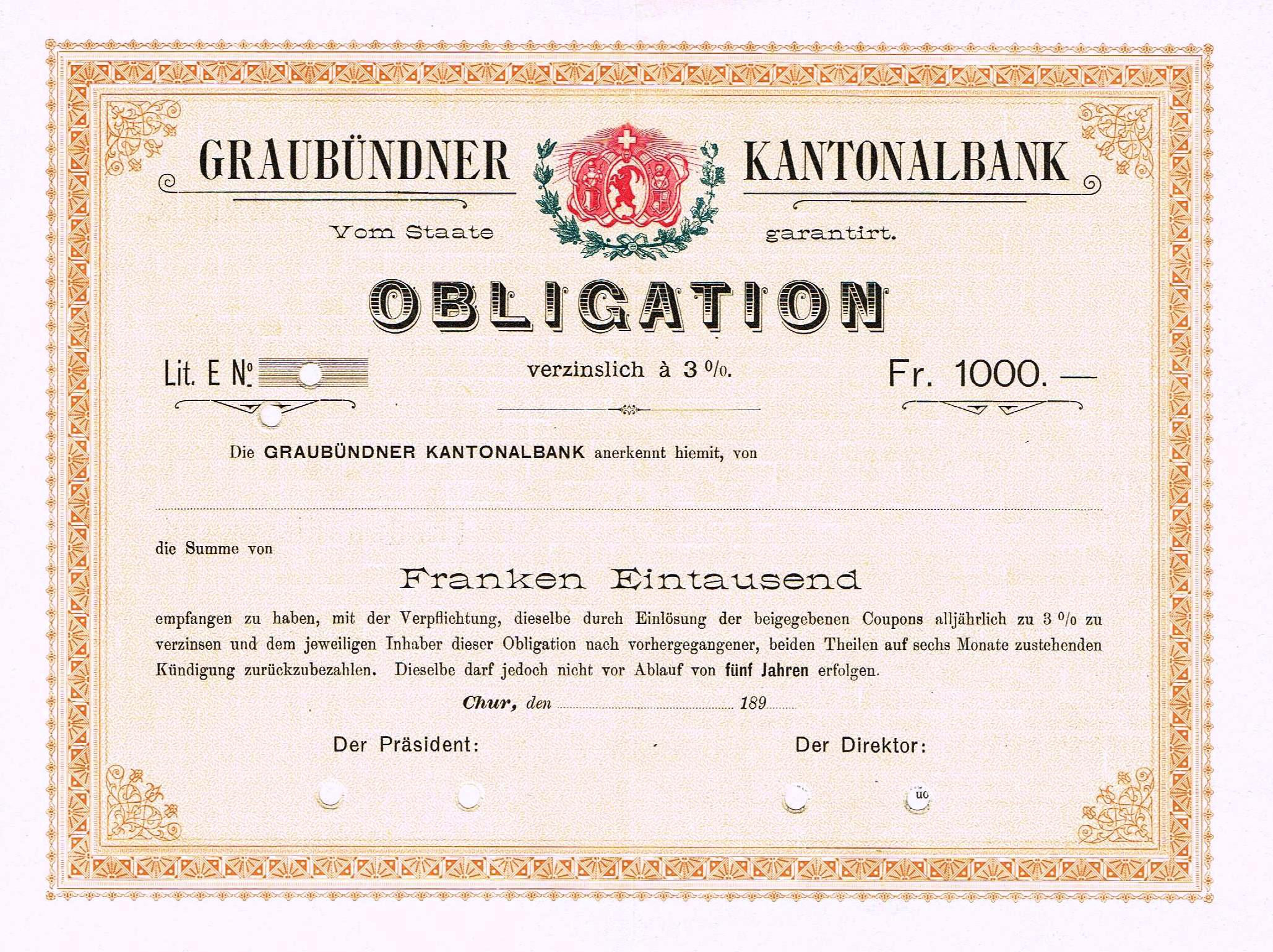 unissued bond of the Graubündner Kantonalbank